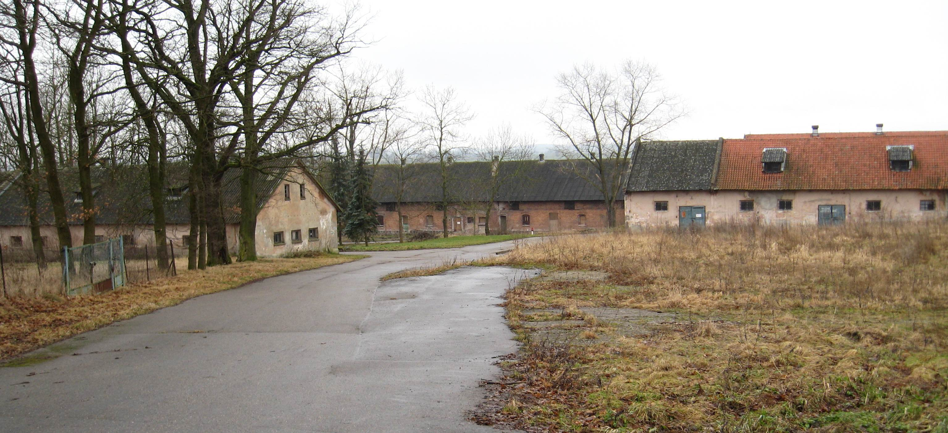 Garbno - Google Maps - Google Earth